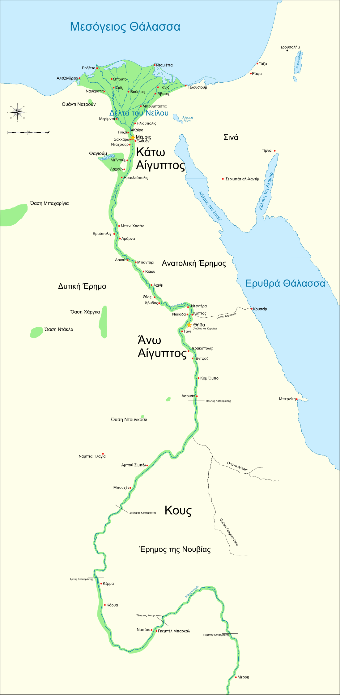 Map of Ancient Egypt, showing the Nile up to the fifth cataract, and major cities and sites of the Dynastic period (c. 3150 BC to 30 BC). Cairo and Jerusalem are shown as reference cities.